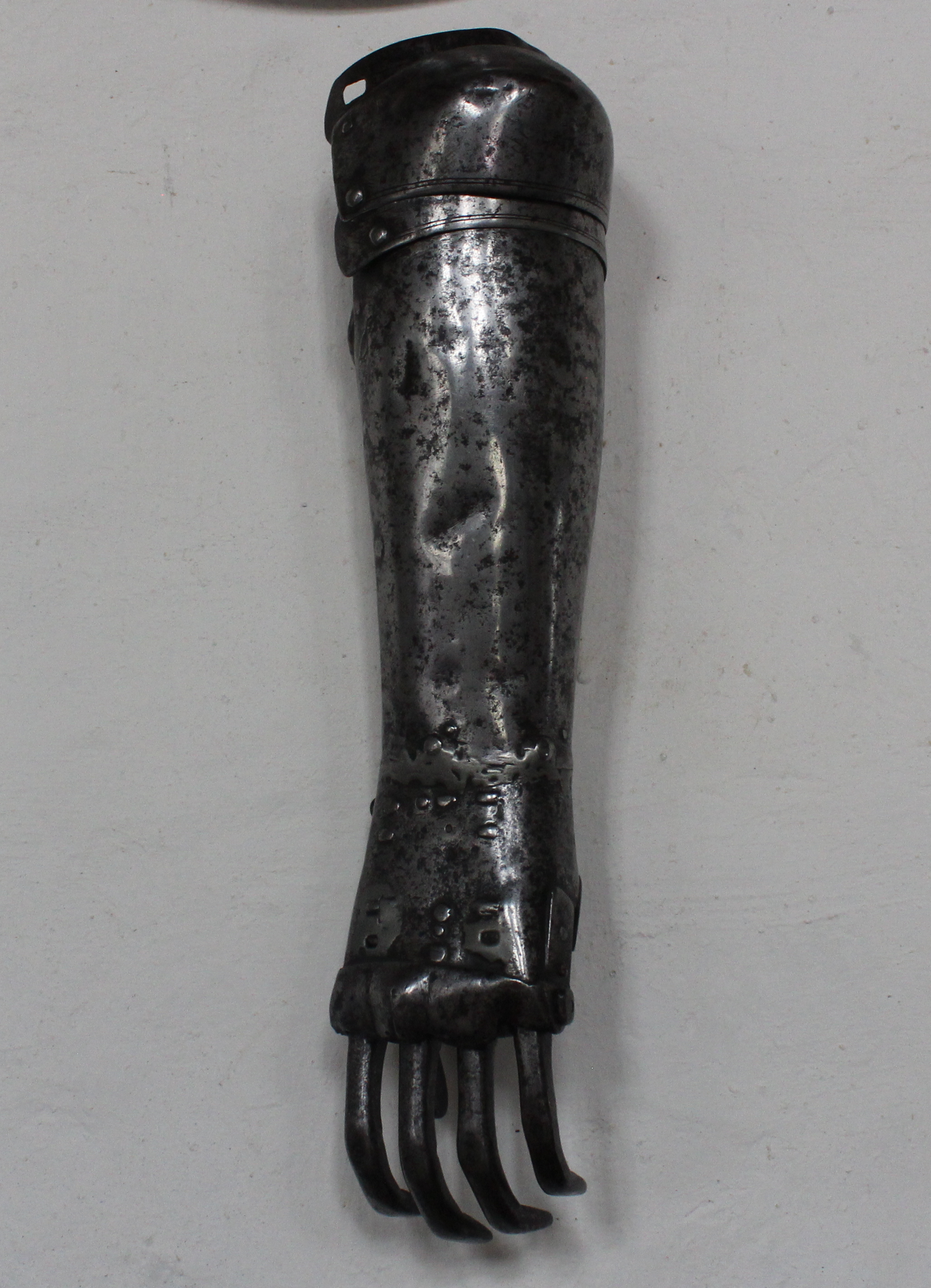 Prosthetic hand of French or German origin and which probably dates from between 1550 and 1600 on display in the Great Hall, Cotehele House, Cornwall.